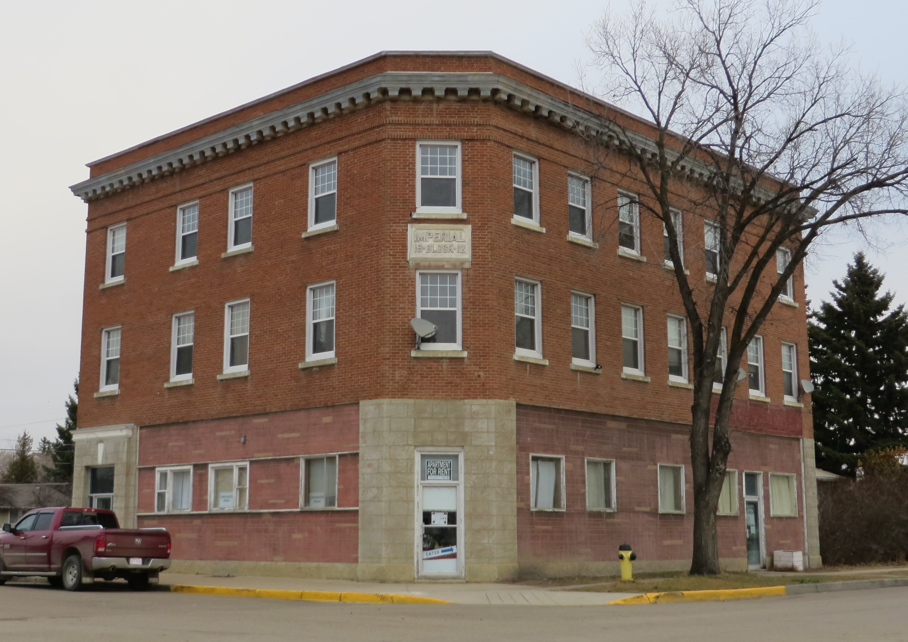 The 1912 Imperial Block in Vermilion, Alberta